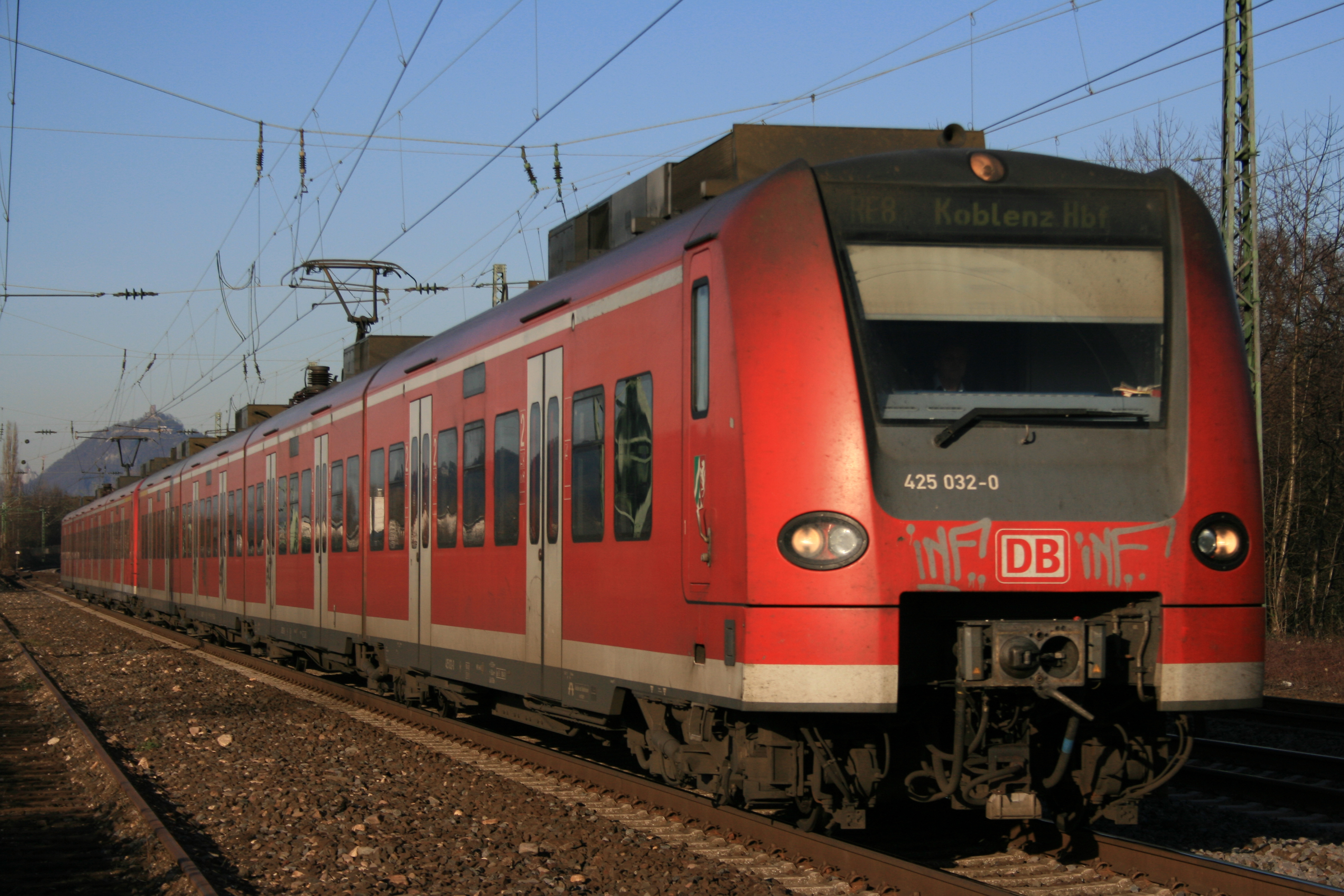 This image shows the DBAG Class 425 032-0 in Unkel